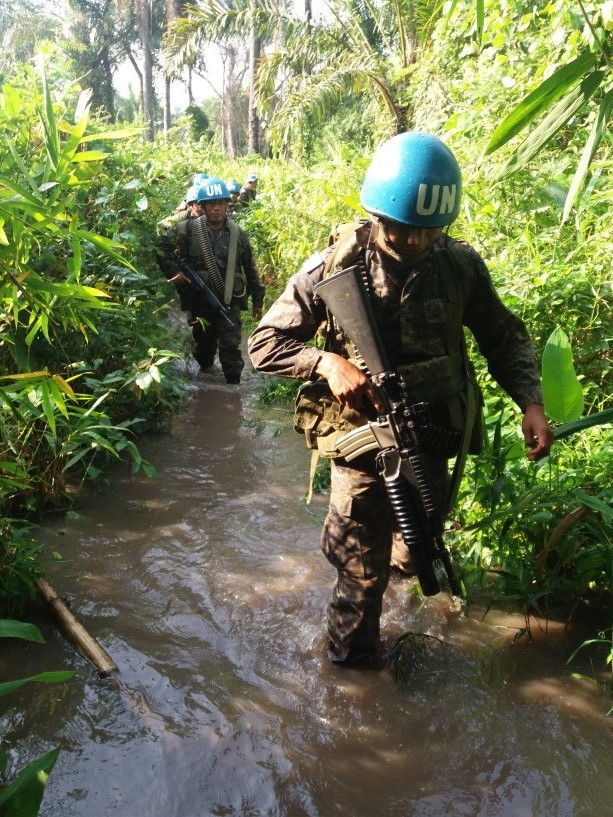 Dungu, Haut-Uele Province, DR Congo: Guatemalan Special Forces conducting reconnaissance to collect information on armed group activities during Red Kite operation on 31st July 2017.Photo: MONUSCO Force.